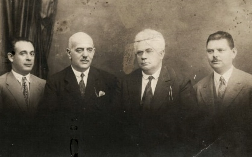 Members of Romania's Jewish Parliamentary Club (i.e. political faction) in 1928. From the left: Michel Landau, Tivadar (Theodor) Fischer, Mayer Ebner, József Fischer.